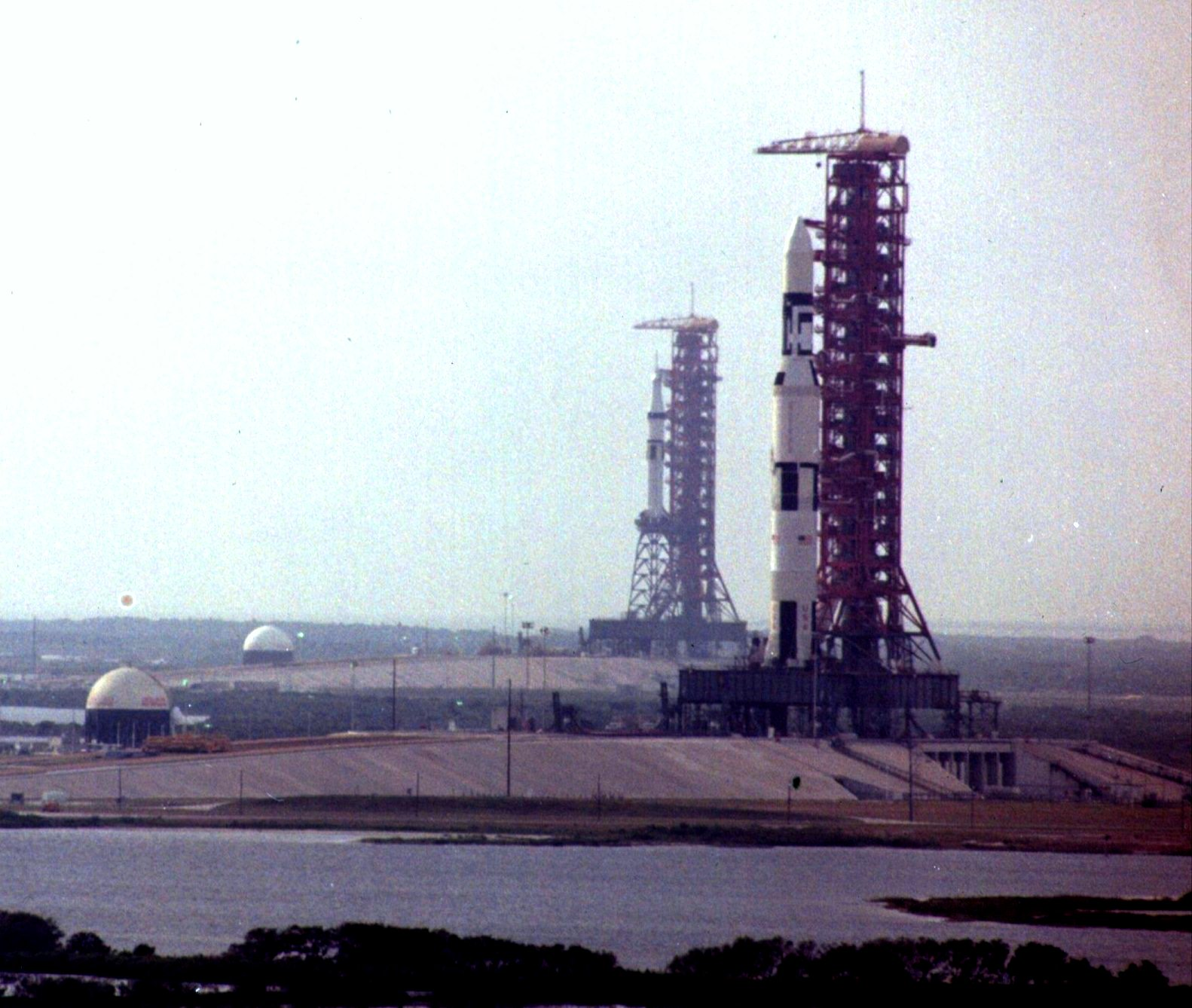 Prior to launch in May 1973, the Skylab space station, foreground, awaits liftoff atop a Saturn V on the Kennedy Space Center's Launch Pad 39A. To the north, is the Saturn 1B with an Apollo command-service module being prepared to launch the first crew to Skylab.